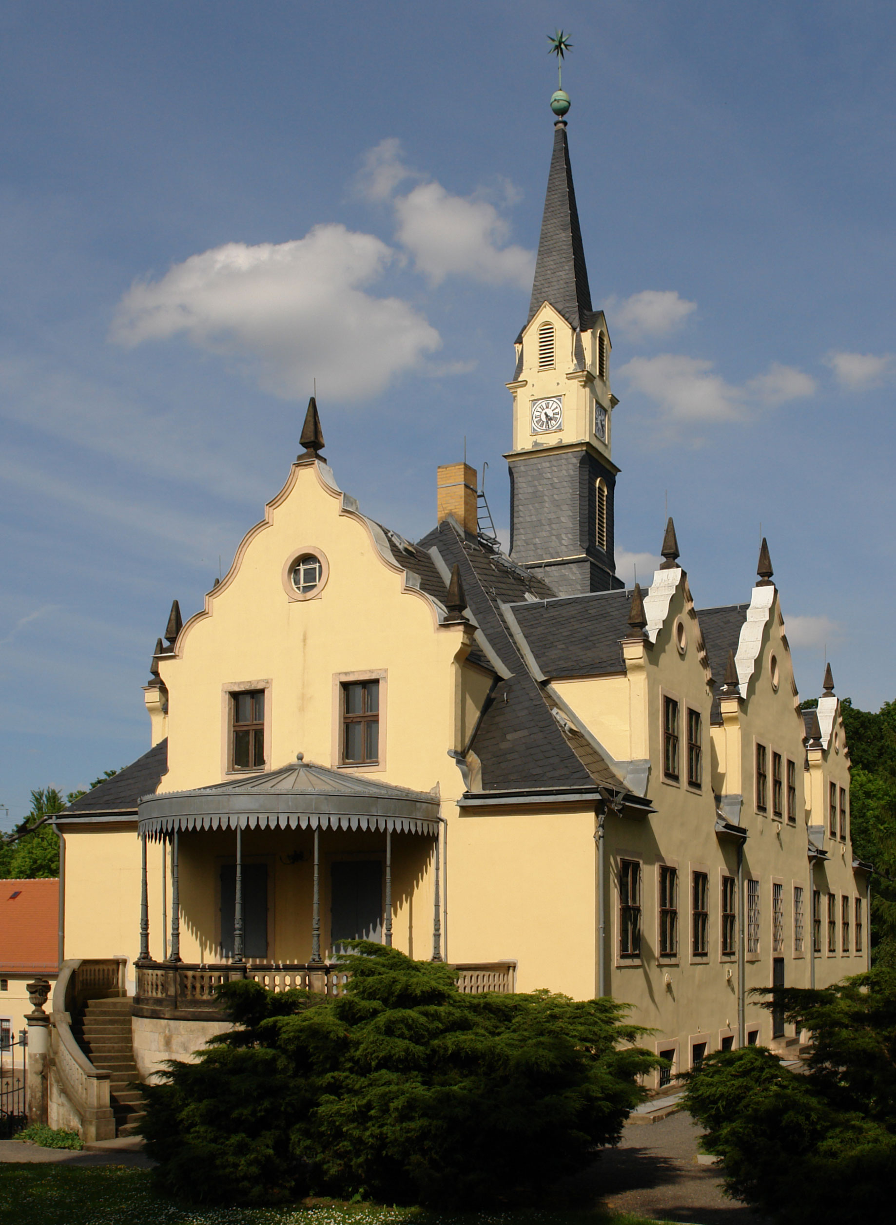 Manor-house of a manorial estate. Part of a compound of workshops, stables, collieries and peasants´ cottages. Foundations about 1507. Production of vitriol and alum 1558–1581. Large-scale coal-mining since 1780, co-ordinated with acquired iron-hammers and rolling-mills since 1827. First gas-lamp in the manor-house in 1828. Dwelling in the house discontinued in 1878, coal-mining ceased in 1930. The agricultural use remained, with importance after 1945. 1946 state-ownership. The manor−house was conveyed to the city of Freital, which installed a museum focussing upon coal-mining, industrialization and five important collections of paintings. Picture shows Sahara dust in the atmosphere